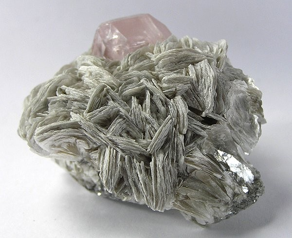 Beryl (Var.: Morganite), Muscovite Locality: Paprok, Nuristan Province (Nurestan; Nooristan), Afghanistan (Locality at ) Size: 5.9 x 4.8 x 3.4 cm. This is a pristine 2-cm crystal of pink morganite , with sharp faces and windows on the sides into the gemmy 100% clean interior. It is nestled in a bed of bladed muscovite. Ex. Marty Zinn Collection.